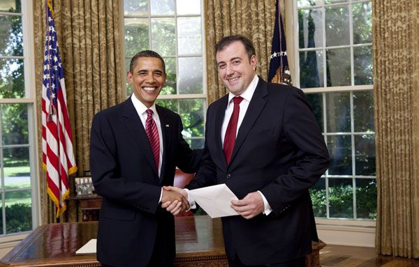 President Barack Obama Welcomes Ambassador Vladimir Petrovic of the Republic of Serbia